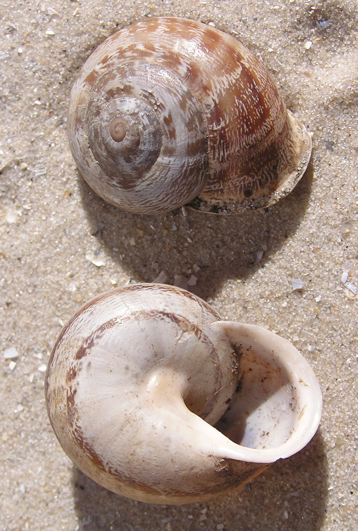 An Otala vermiculata (syn. Eobania vermiculata) shell.